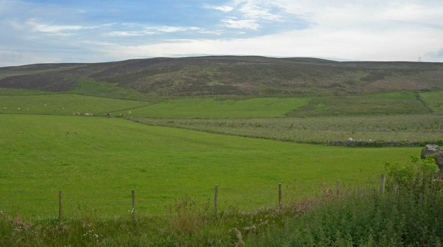 Grain and grazing fields north of Meikle Carrewe